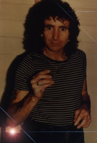 Bon Scott